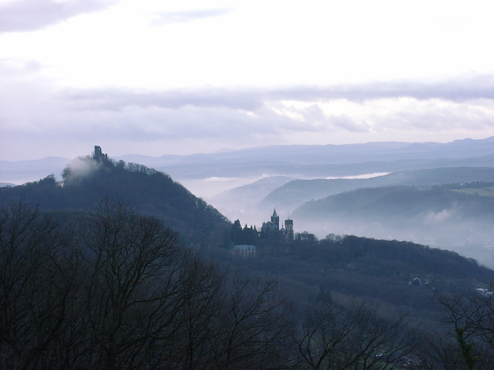 Dawn view from Petersberg into Rhine valley (left hand the ruined castle Drachenfels, in the middle the so-called Schloss Drachenburg)